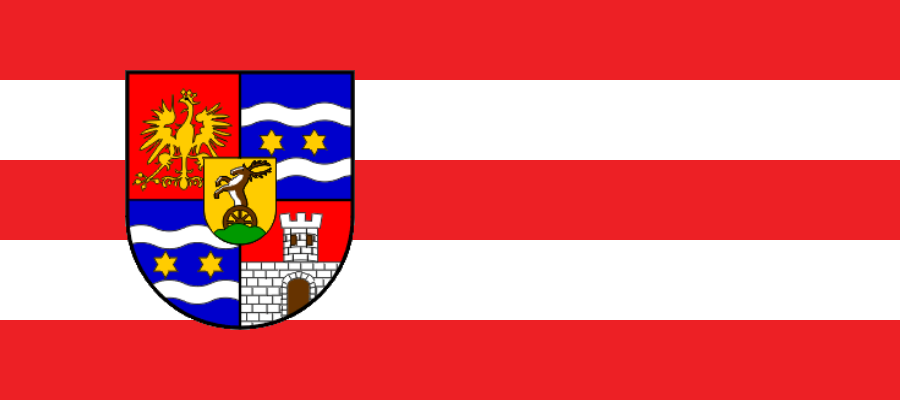 Flag of Varaždin County, Croatia.